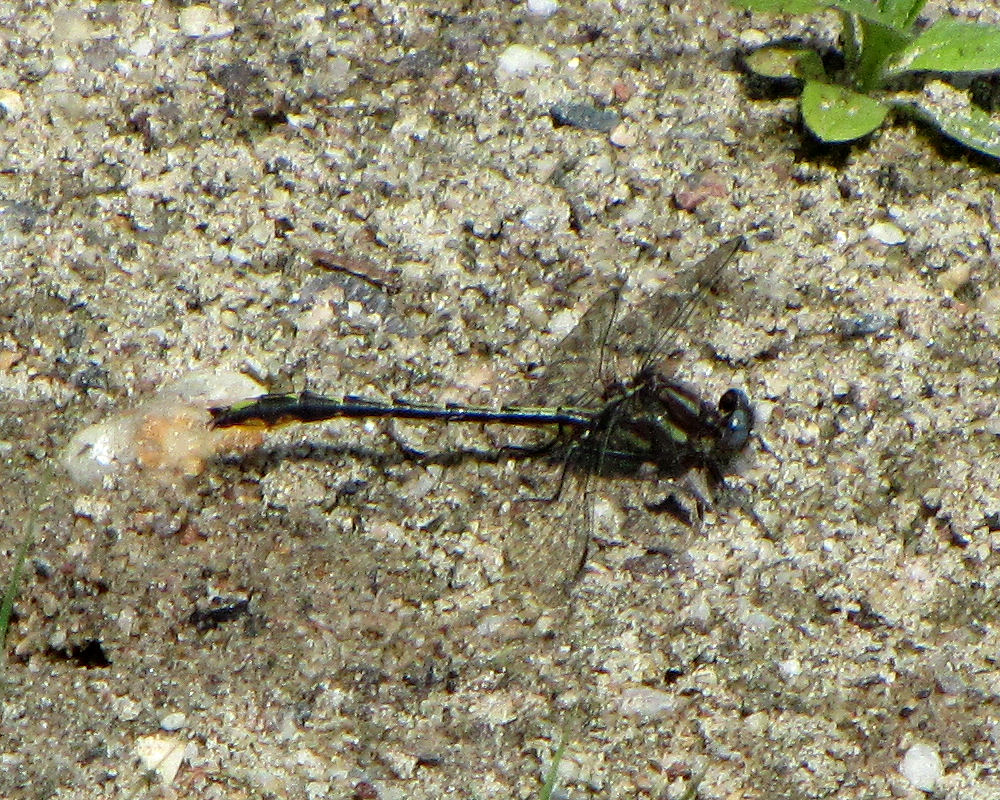 Lancet Clubtail (Gomphus exilis), Ottawa, Ontario